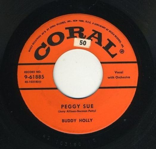 Peggy Sue by Buddy Holly, Coral 1957.